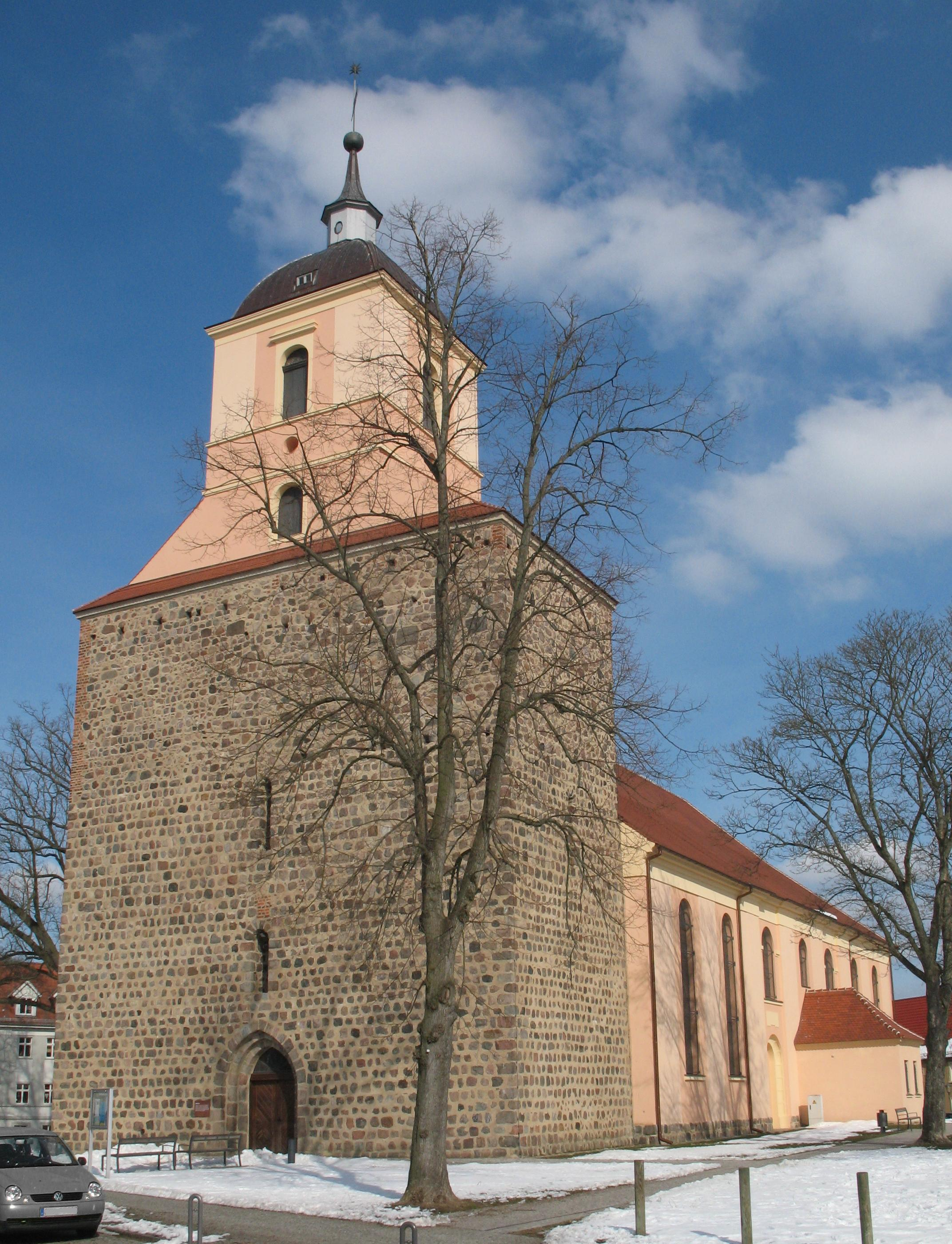 Church in Zehdenick in Brandenburg, Germany